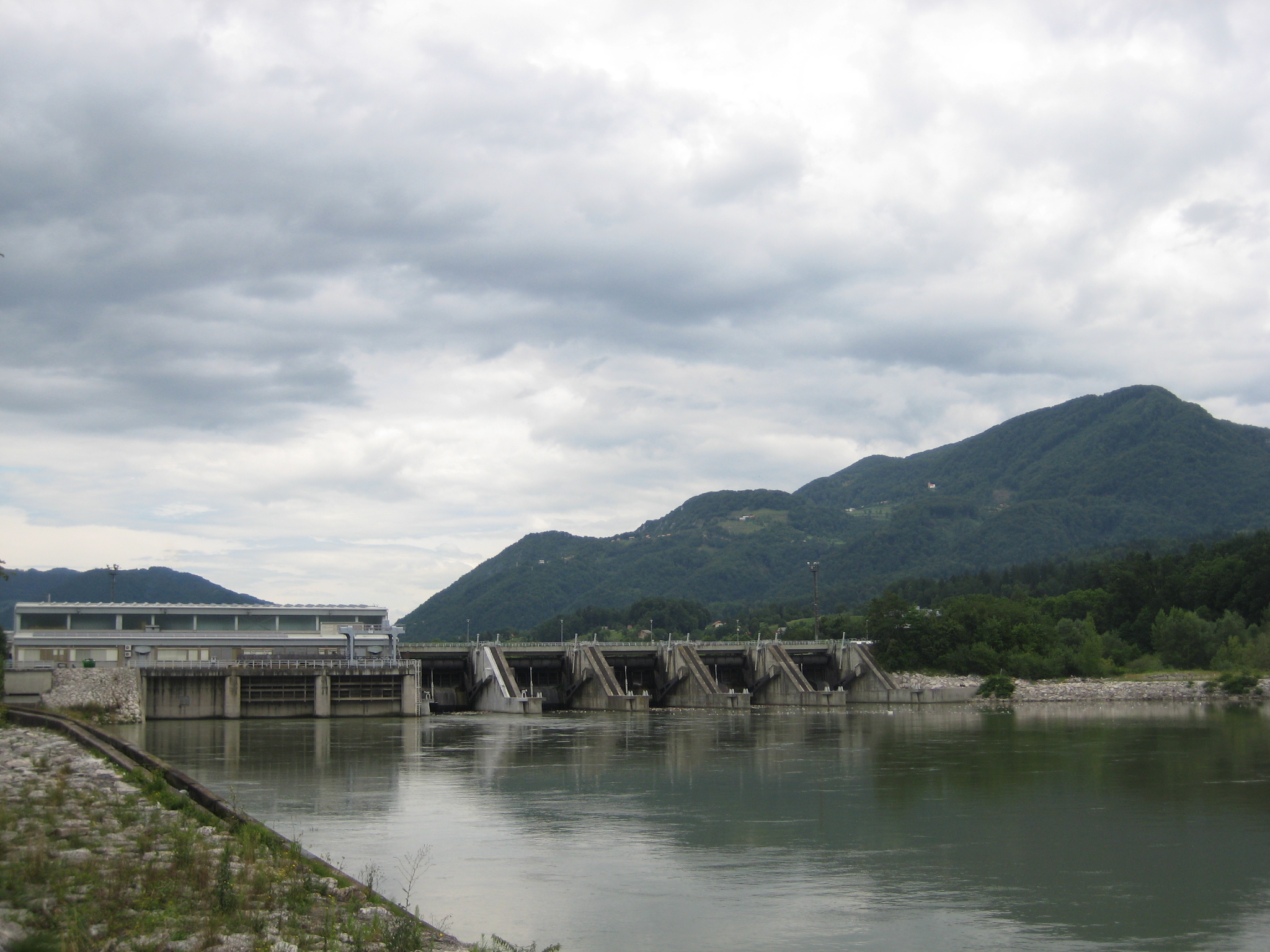 Hydroelectric station Vrhovo, Slovenia (river Sava)